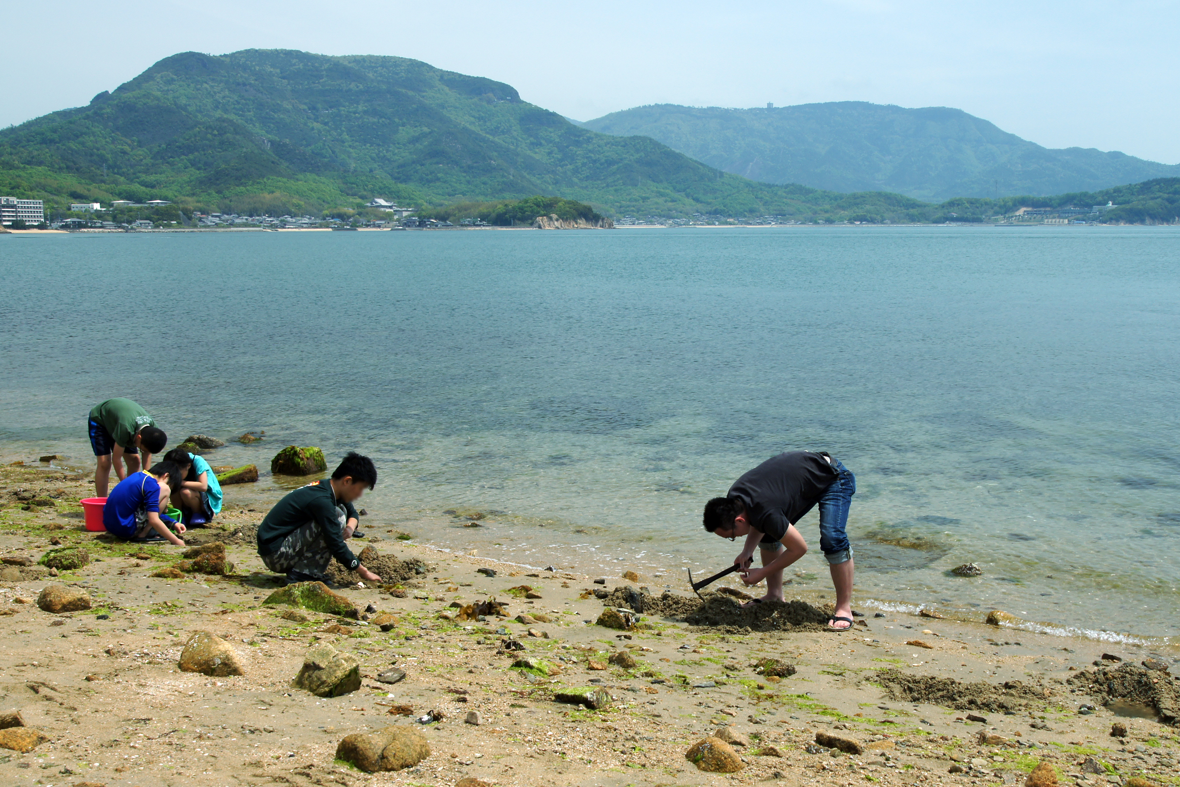 The Angel Road of Shōdo Island, Tonosho, Kagawa prefecture, Japan